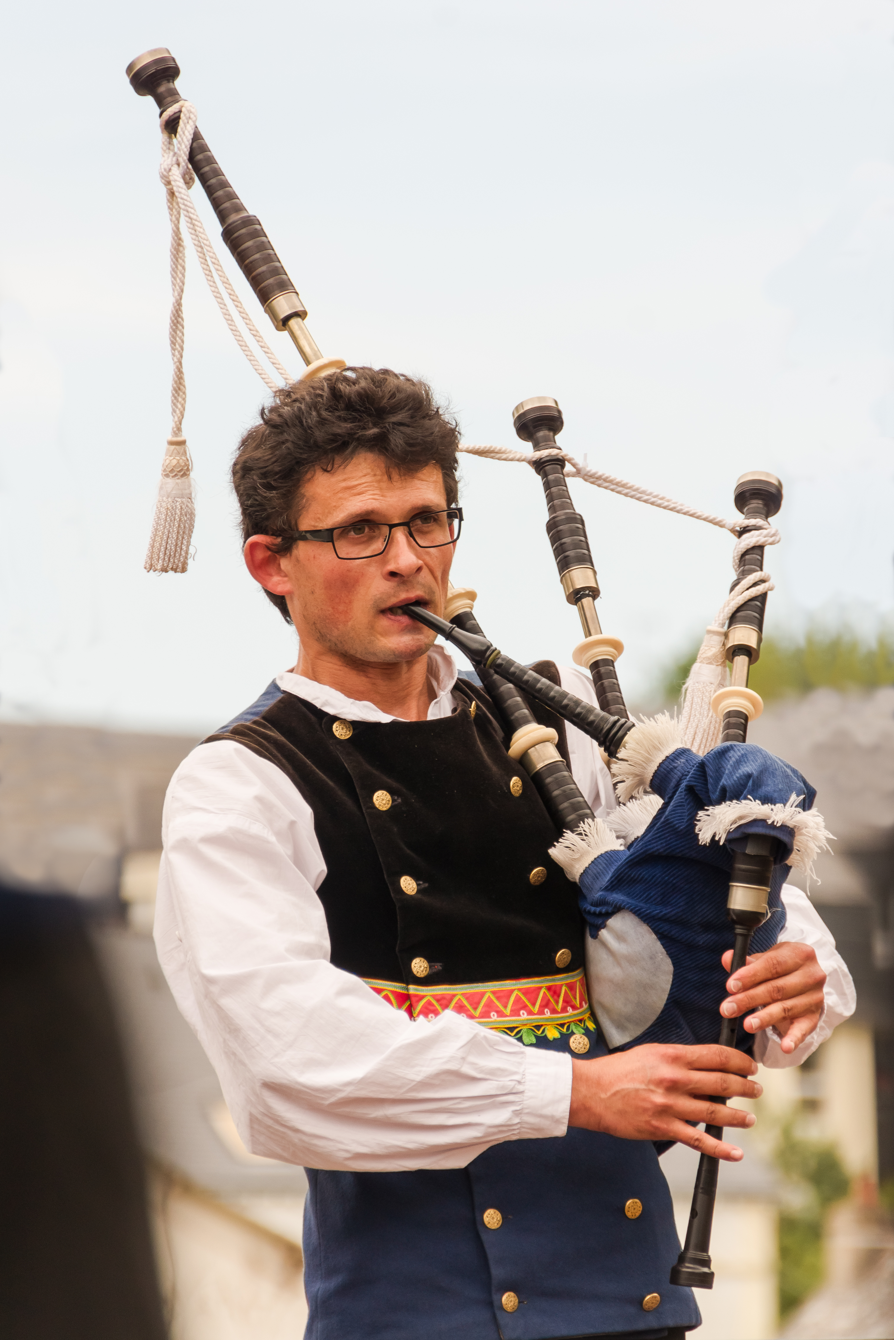 A bagpiper of the Bagad "An Erge Vras" of Ergué-Gabéric (Finistère), in Vannes (Morbihan), july 2014.